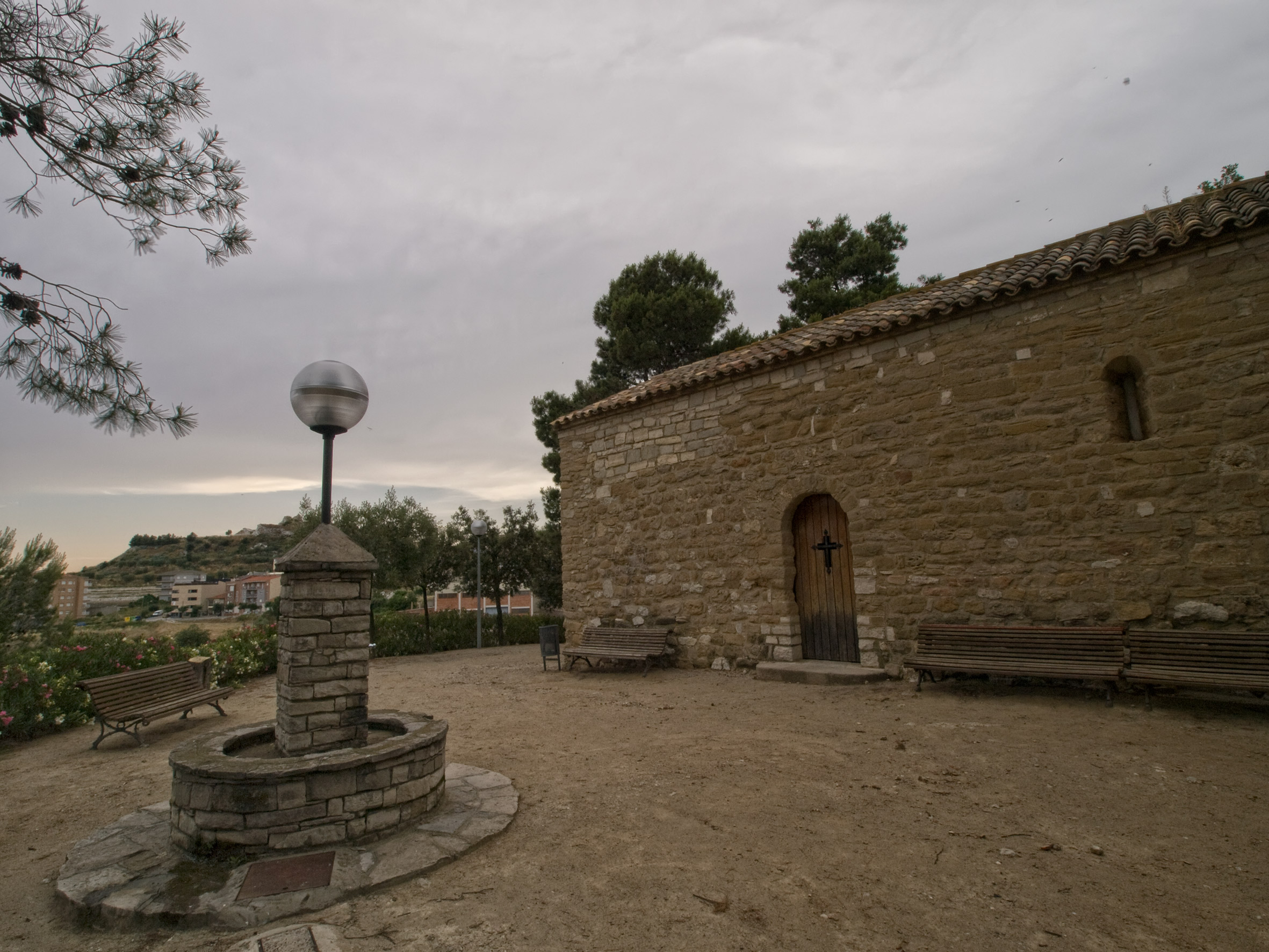 Sant Miquel church of Òdena (Catalonia, Spain)